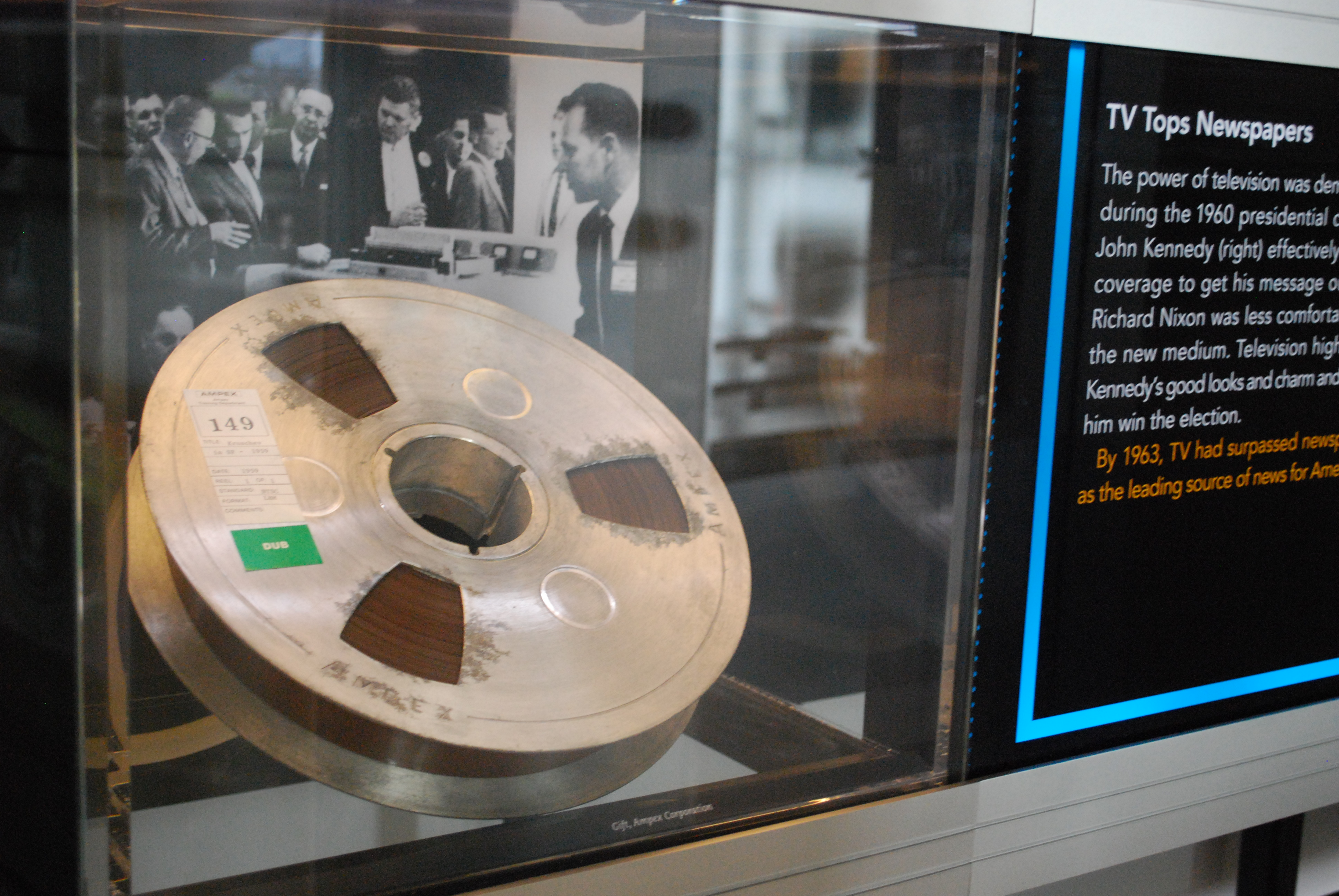 Ampex video tape, National Museum of American History